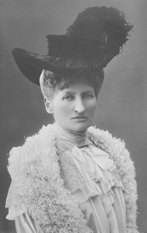 Princess Theresa of Liechtenstein (1850-1938) child of Aloys II and wife of Prince Arnulf of Bavaria (1852-1907)